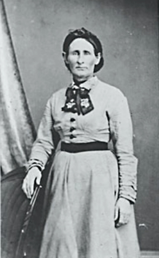 Nancy Kelsey, (b. August 1, 1823 Barren Kentucky - d. August 10, 1896 outside San Diego, California) was the first white woman to travel overland from Missouri to California photographed by Carleton E. Watkins (1829 – 1916).